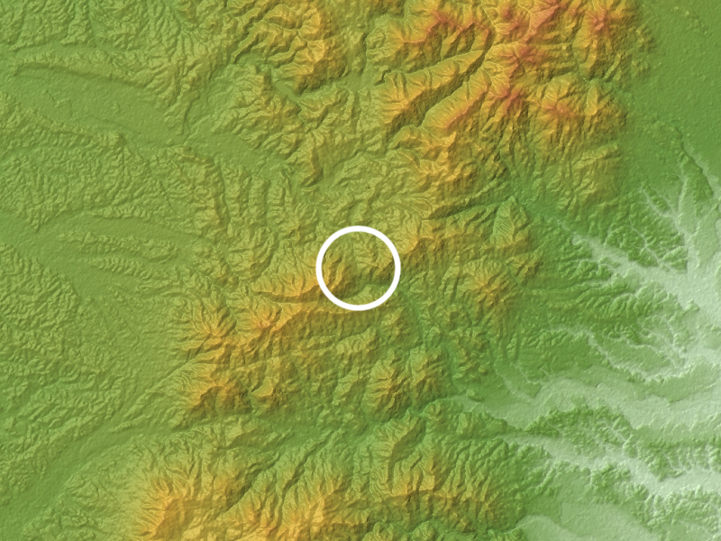 Around Suzuka Pass in the border between Mie and Shiga prefectures, Honshu, Japan.